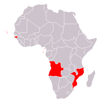 Map of the PALOPs (a Portuguese colloquial acronym which means African Countries of Portuguese Official Language (Portuguese for: Países Africanos de Língua Oficial Portuguesa)).